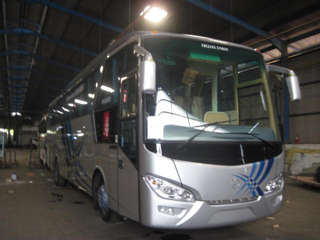 3unBus by: PT.trijaya union carroserie